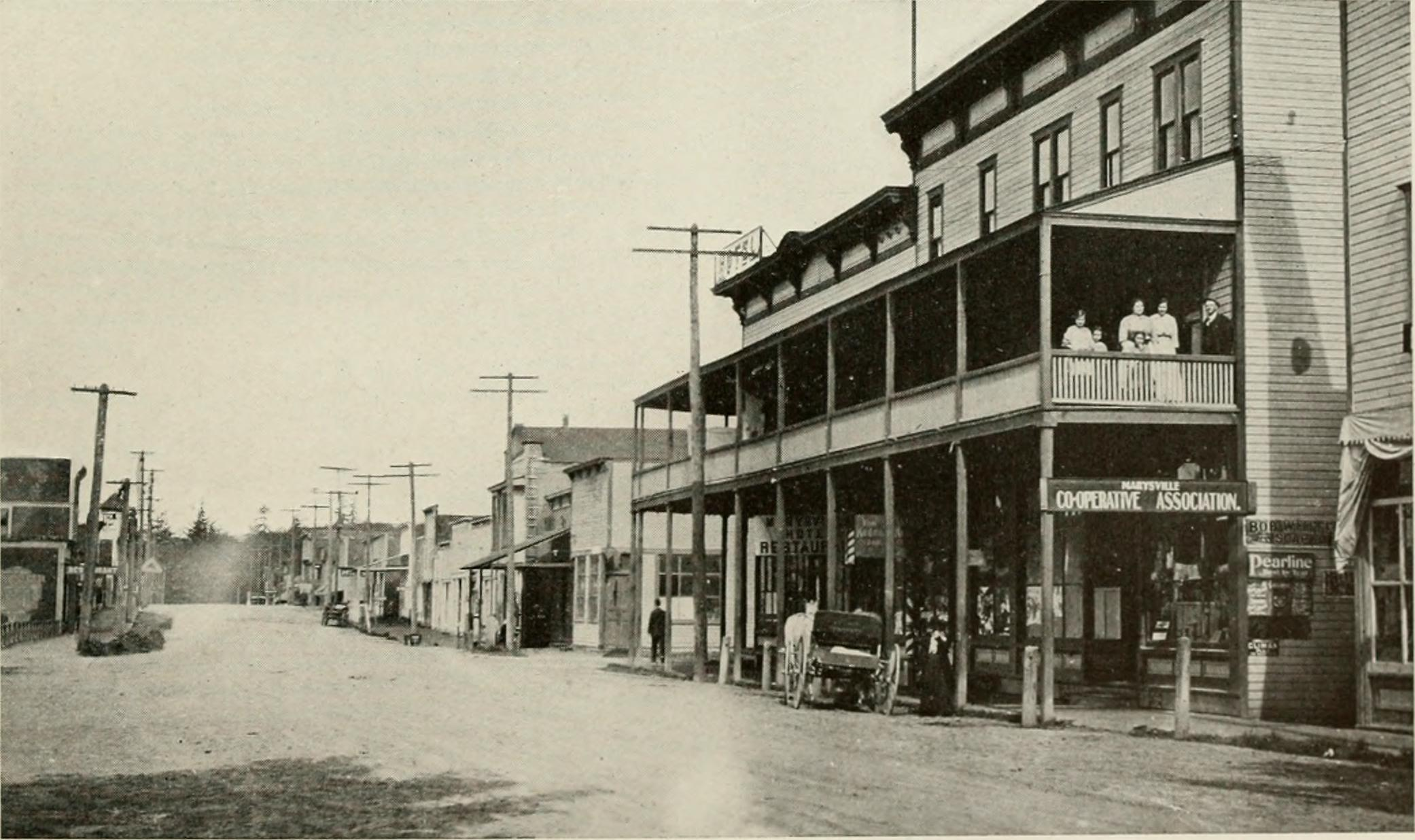 Scanned image of a street scene in Marysville, Washington, showing the Marysville Cooperative Association and the Marysville Hotel to the right.